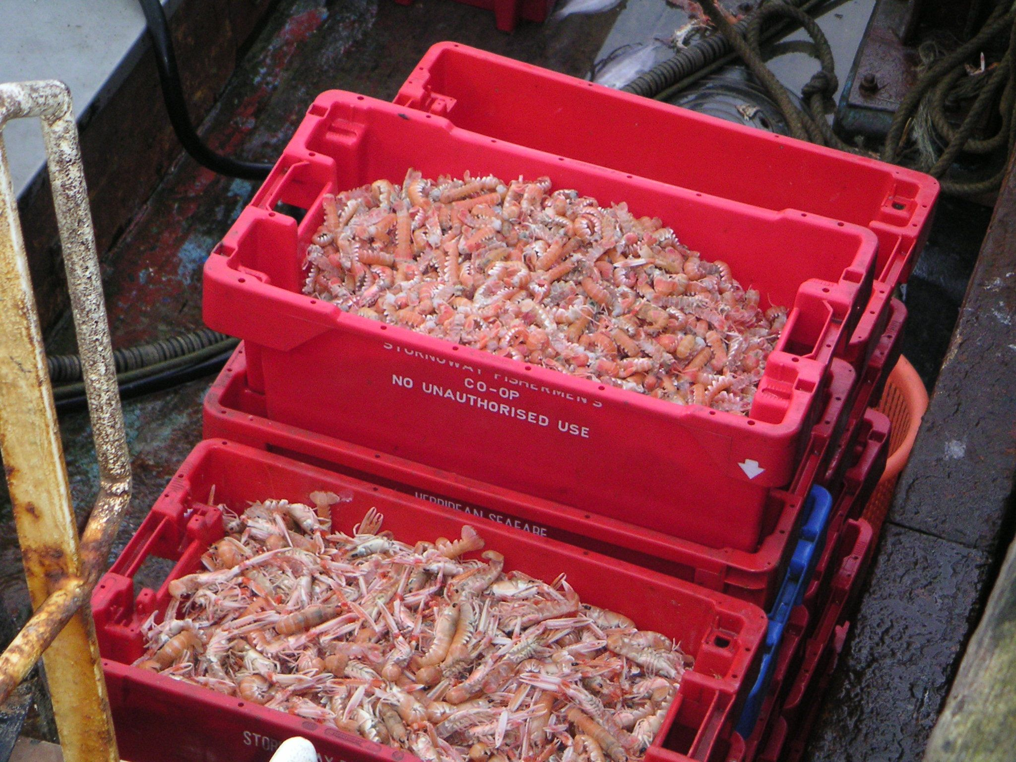 Fresh prawns Author: Wojsyl